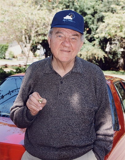 Karl Malden displays Variety Club Gold Hearts brooche